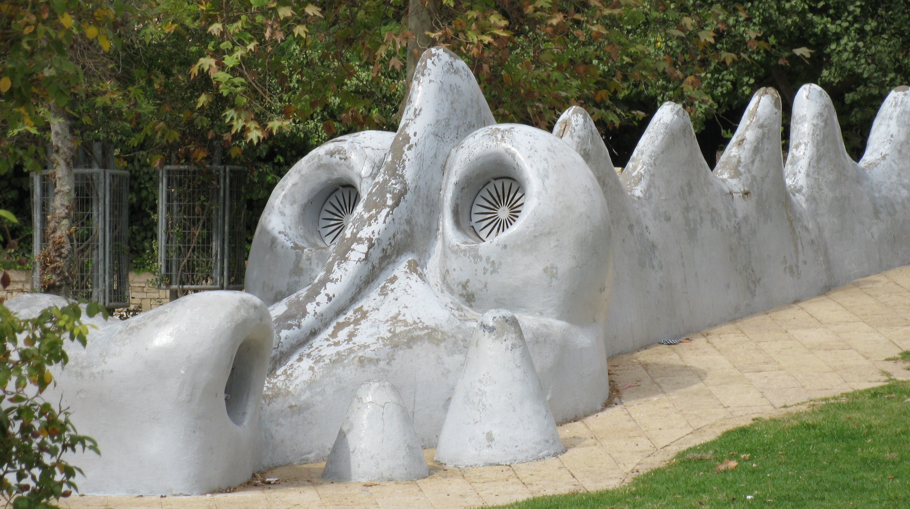 Gan Paamon HaDeror, Liberty Bell garden (Gan HaPaamon) Jerusalem